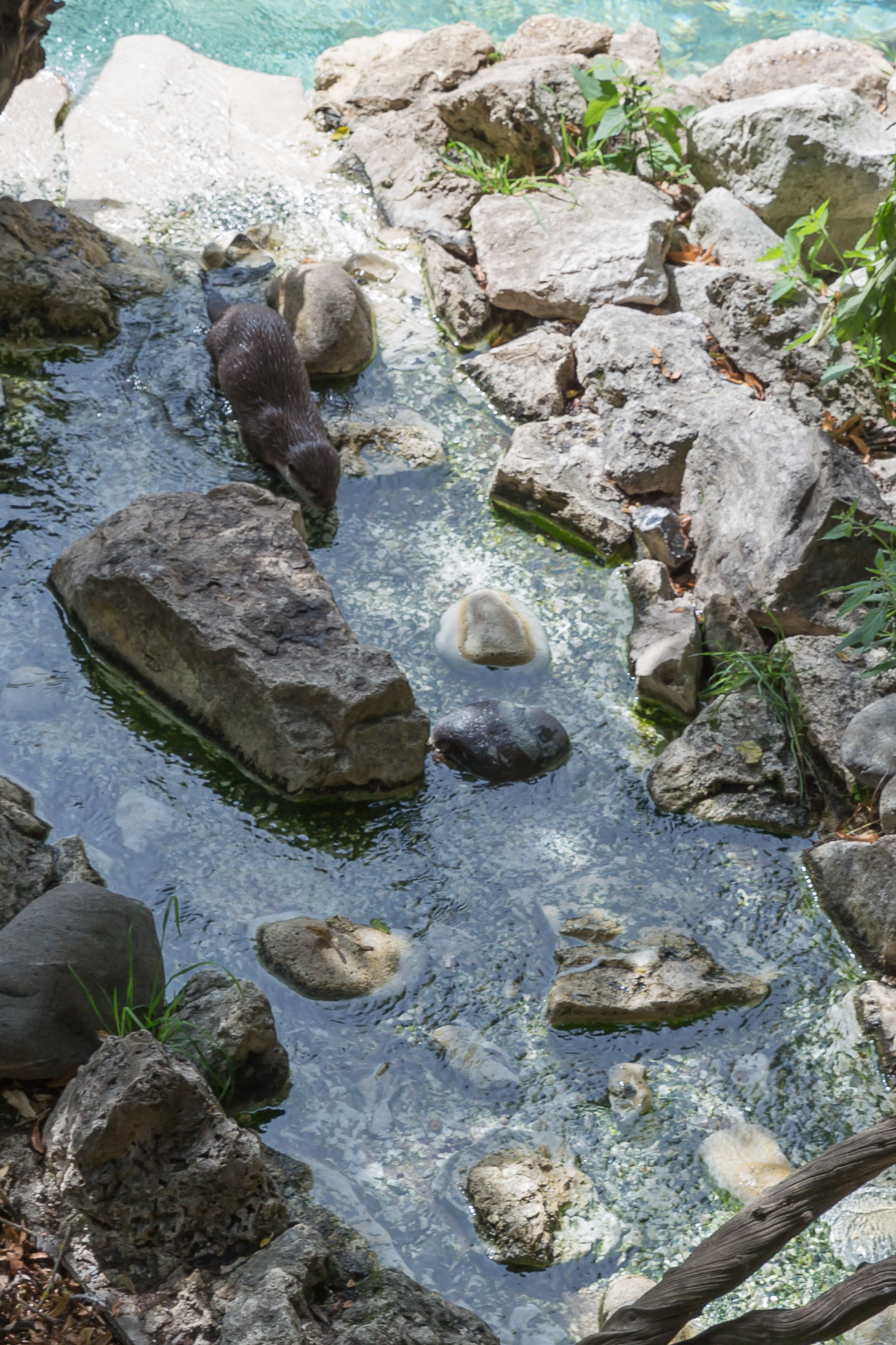 Aonyx cinerea (ashy Otter) in the ZooParc Beauval in Saint-Aignan-sur-Cher, France.